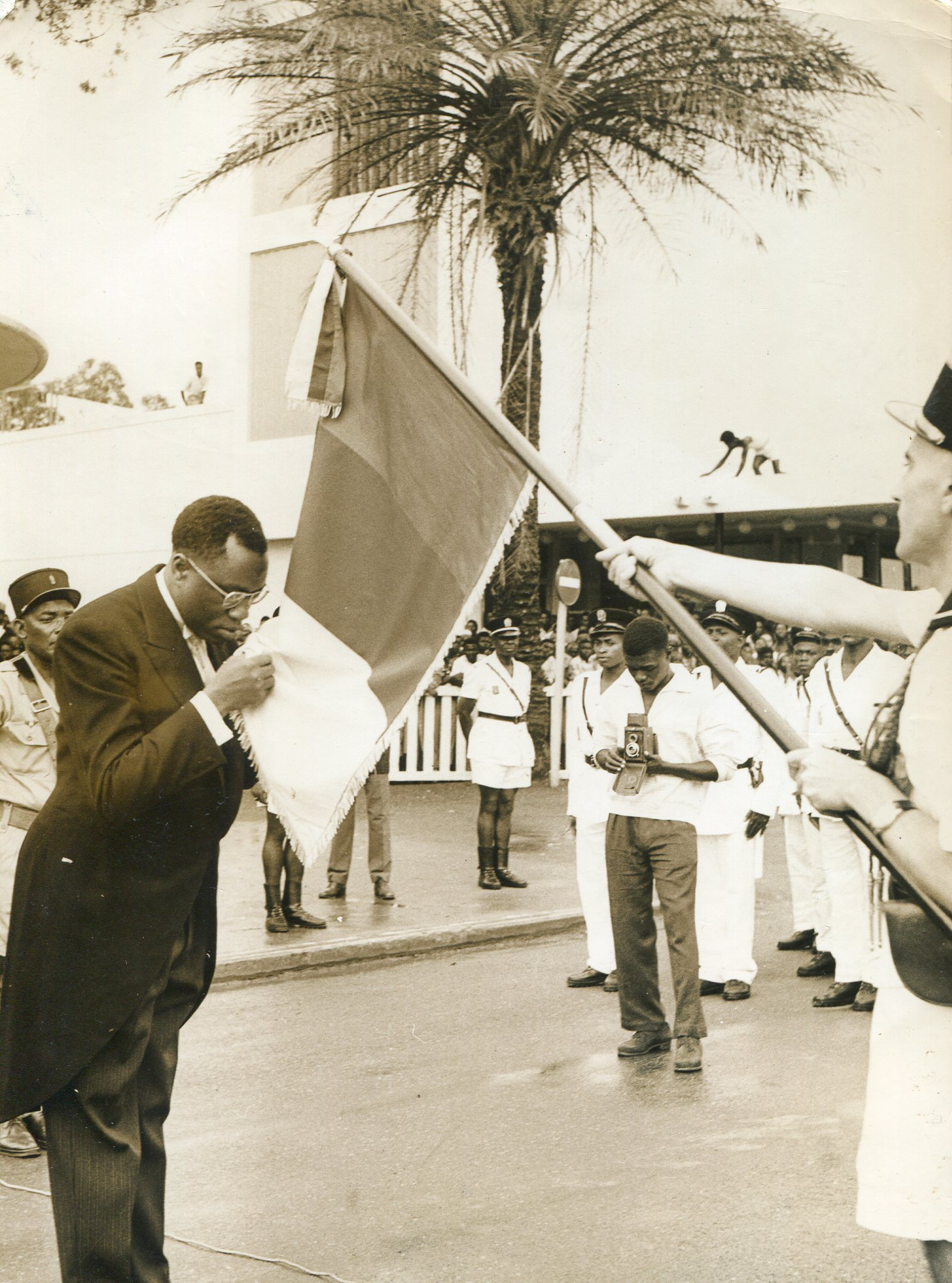 André Marie Mbida, first head of State (facto) of Cameroun and the first flag